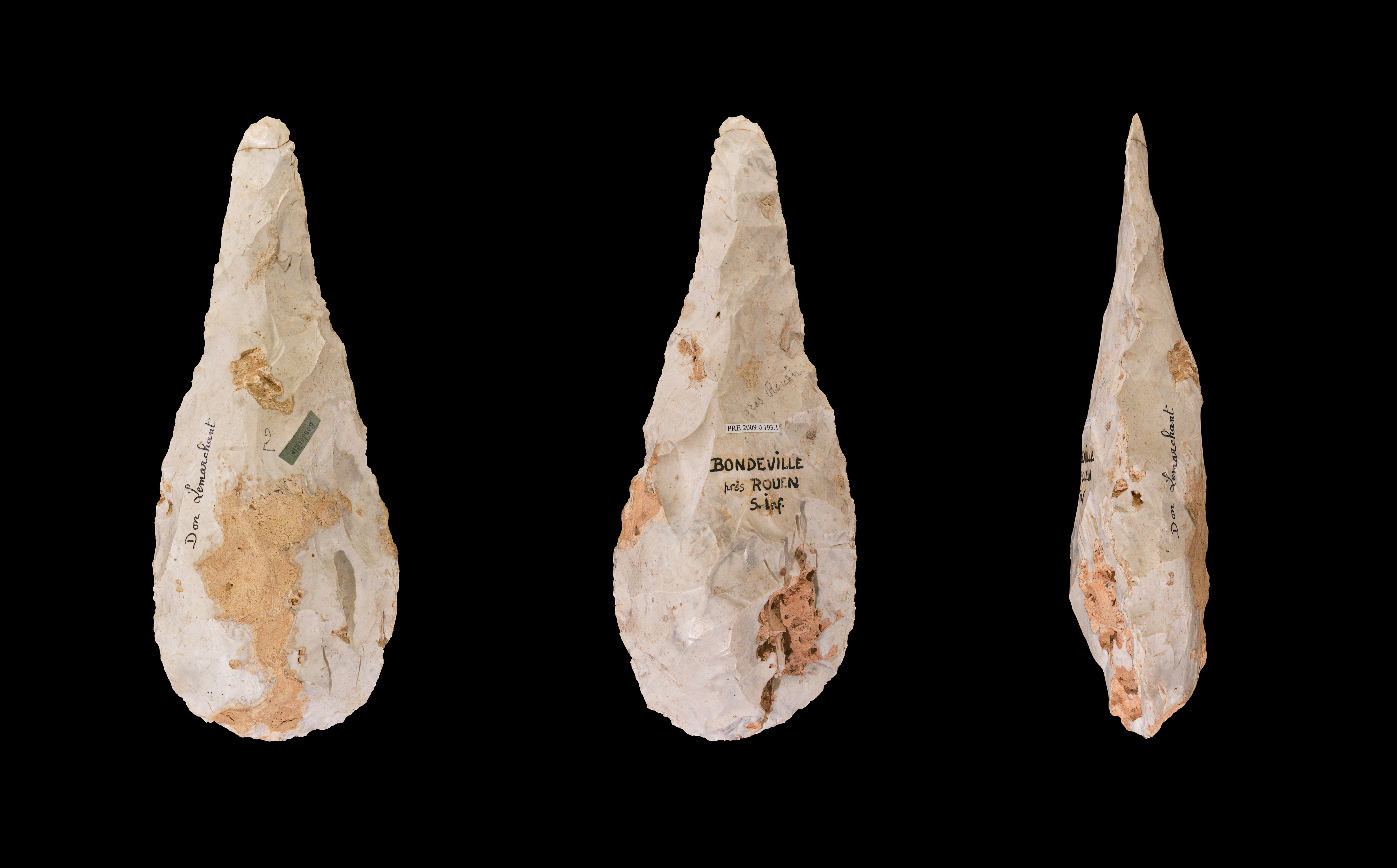 Biface Micoquien 3 views of the same specimen.